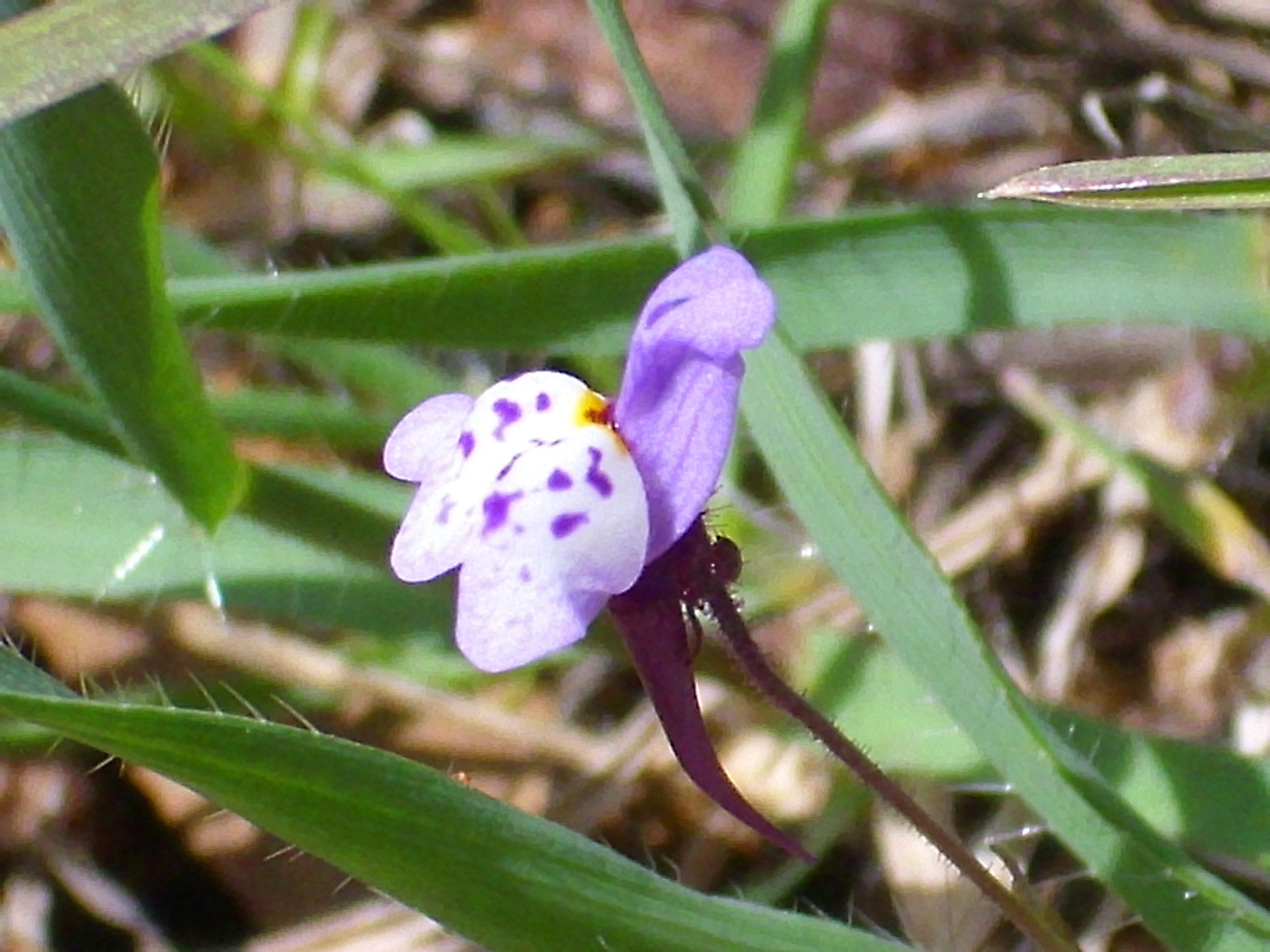 Linaria amethystea close up, Sierra Madrona, Spain